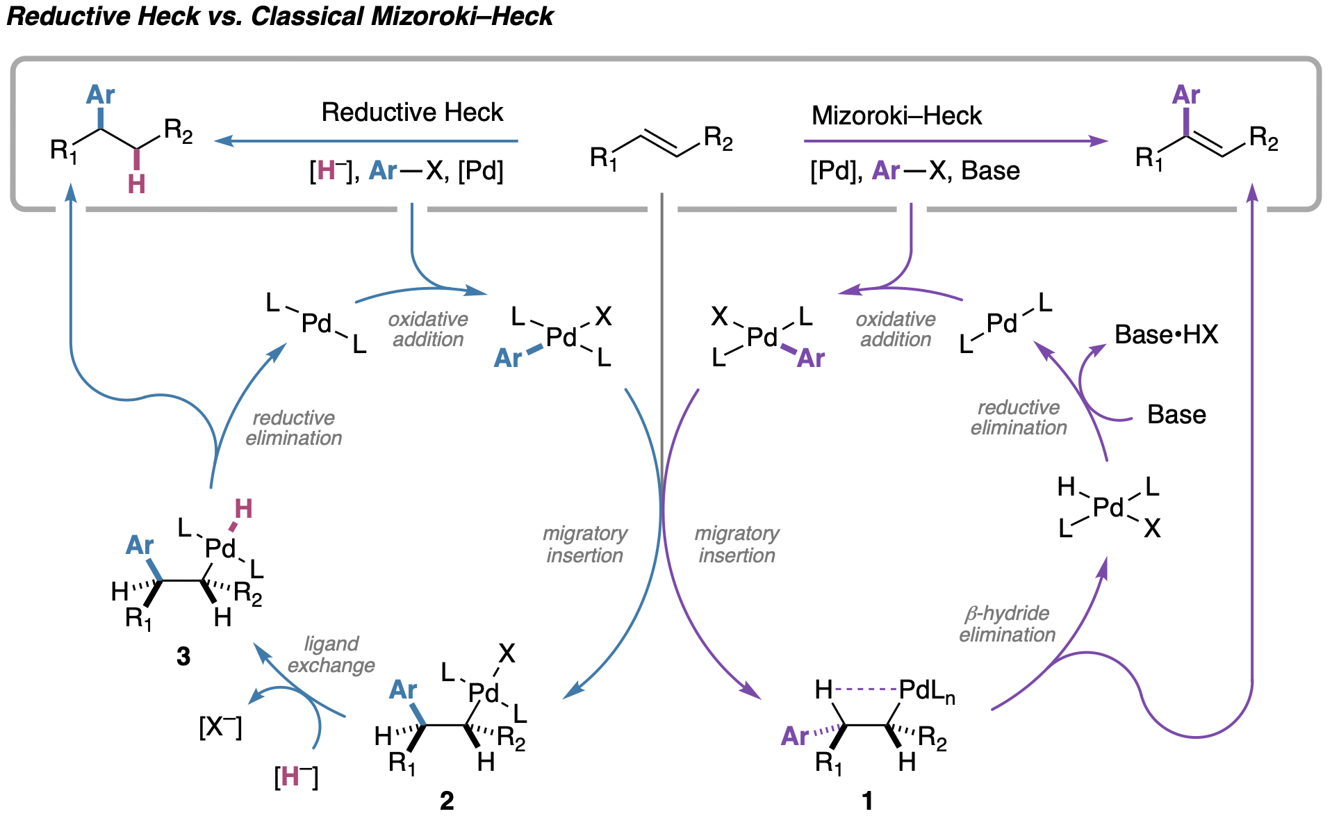 The reductive Heck (left) and classical Mizoroki-Heck (right) approaches to alkene functionalization.